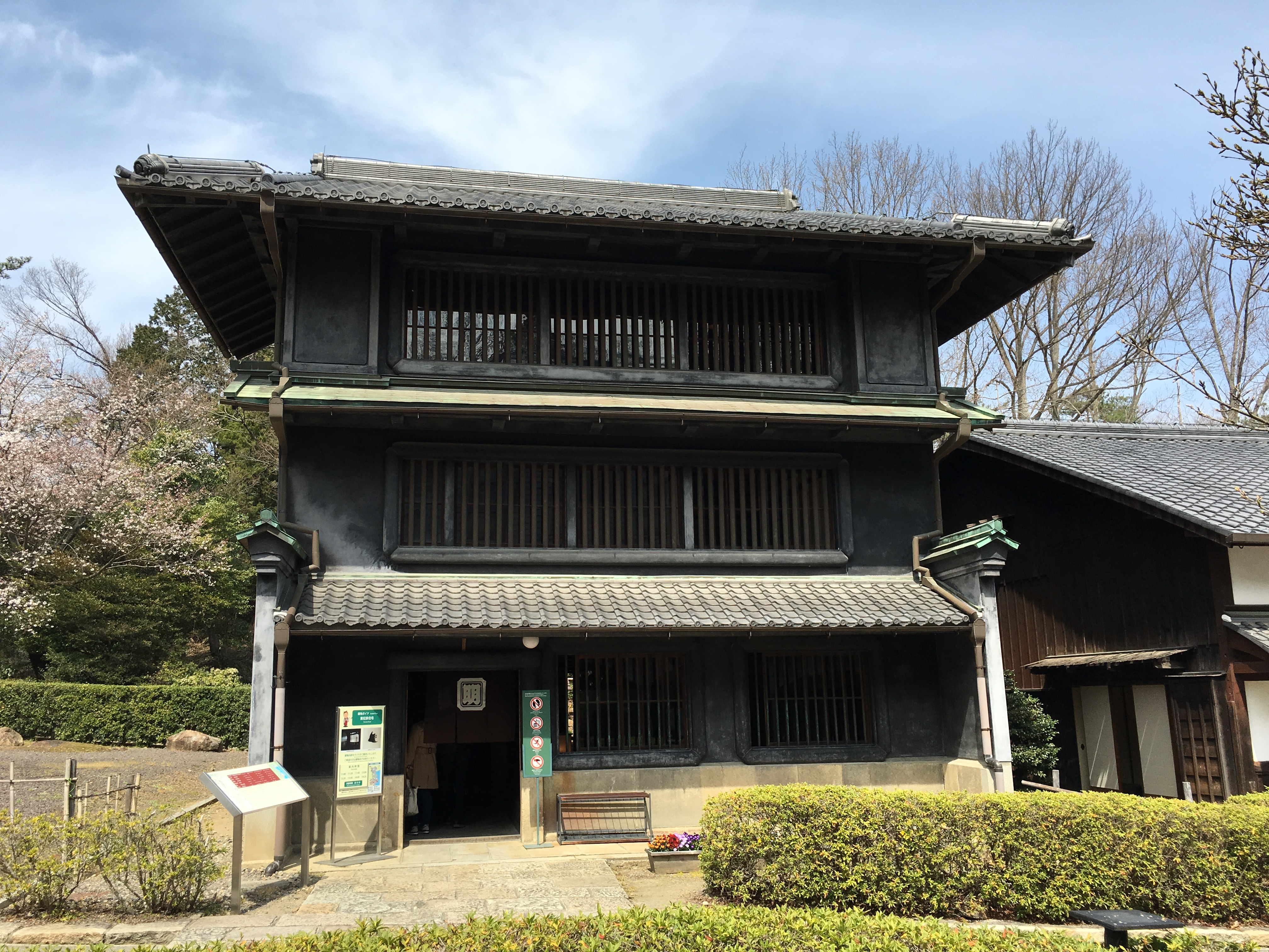 The Tōmatsu House (東松家住宅 , Tōmatsu-ka jūtaku) is a former merchant house that used to be located close to the Hori Canal in Funairi-chō (船入町) in Nakamura-ku, Nagoya. It was constructed in 1901. The area suffered heavy damage during the air bombardments in World War II, particularly in 1944 and 1945. The house survived and was relocated to the museum Meiji-mura in the 1970's. It has been designated by the government as an Important Cultural Property.